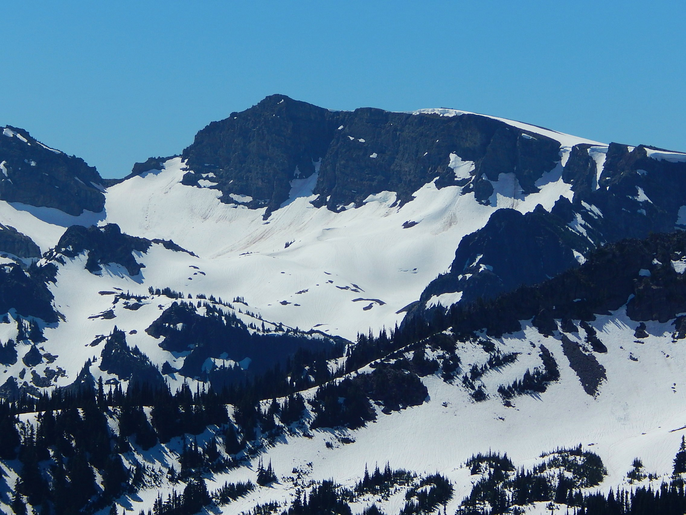 Banshee Peak seen from Sourdough Ridge, Mount Rainier National Park